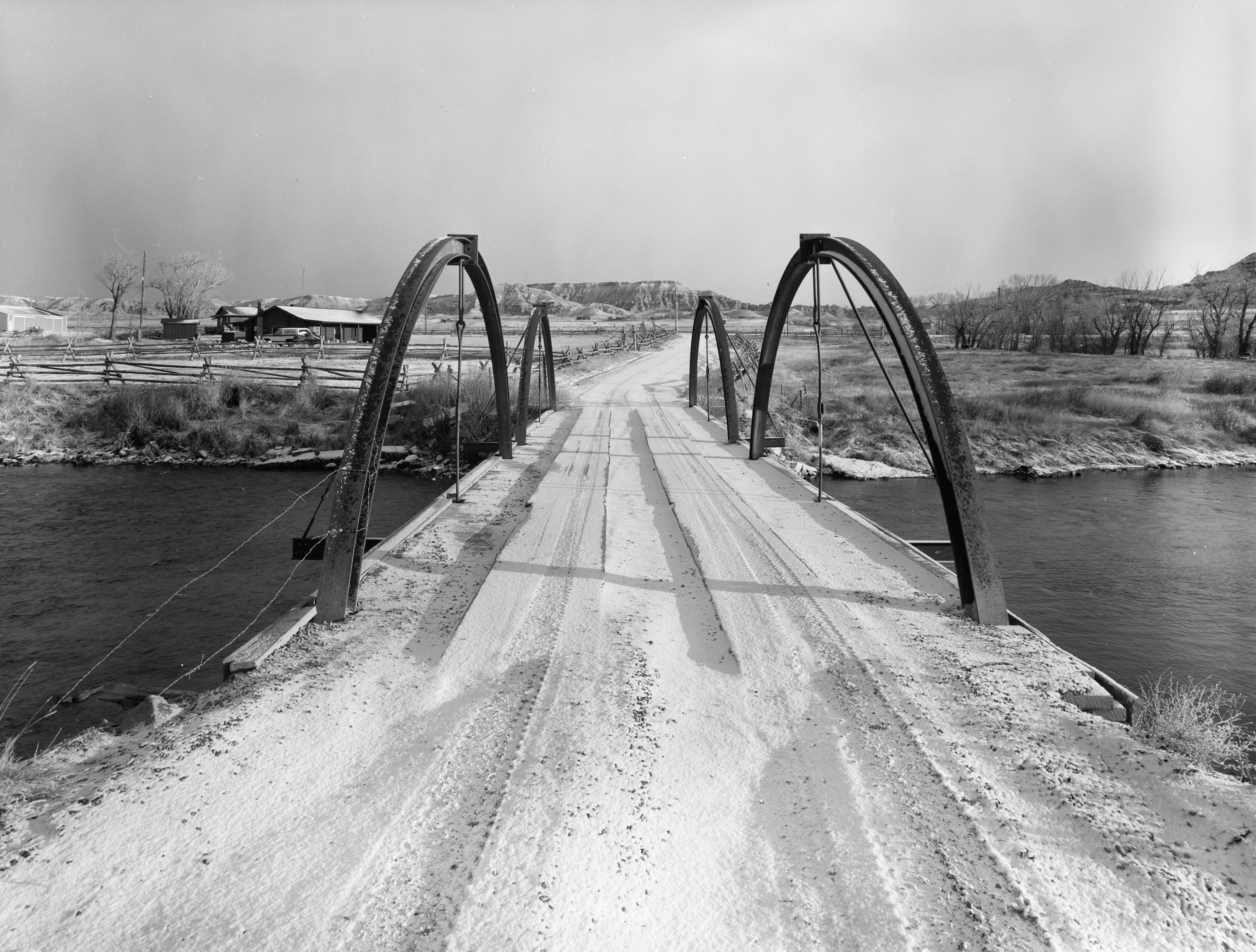 Western end of the ELS Bridge over Big Wind River, which carries County Road CN10-21 over the Big Wind River near Dubois in Fremont County, Wyoming, United States. Built in 1920, this King Post truss bridge is listed on the National Register of Historic Places.